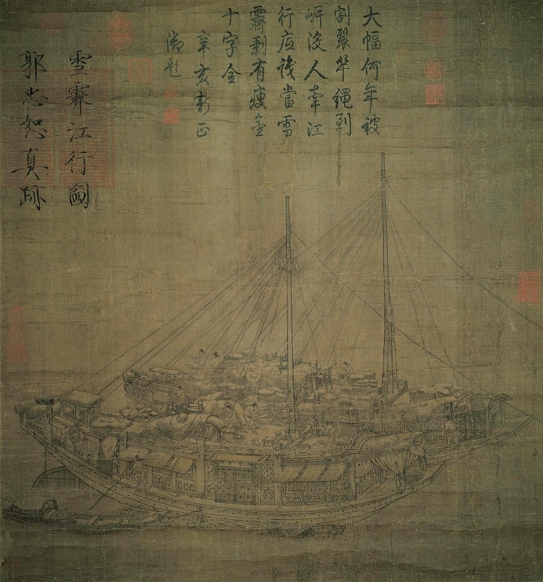 Traveling on the River in Clearing Snow, by Guo Zhongshu (c. 910–977 AD). This painting shows a pair of Chinese cargo ships (with stern-mounted rudders) accompanied by a smaller craft. It is painted on silk and dated to the early Song Dynasty period (960–1279 AD).